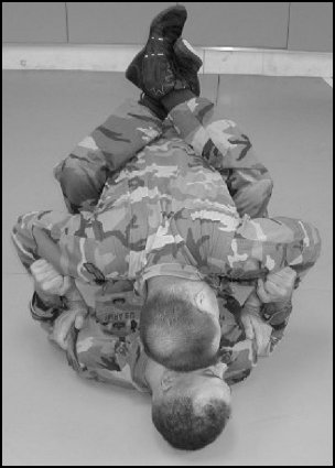 Soldier uses a headbutt to strike his adversary while in his guard.